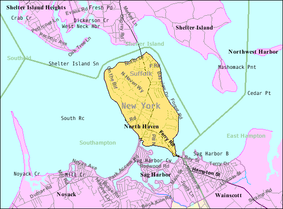 U.S. Census 2000 reference map for North Haven